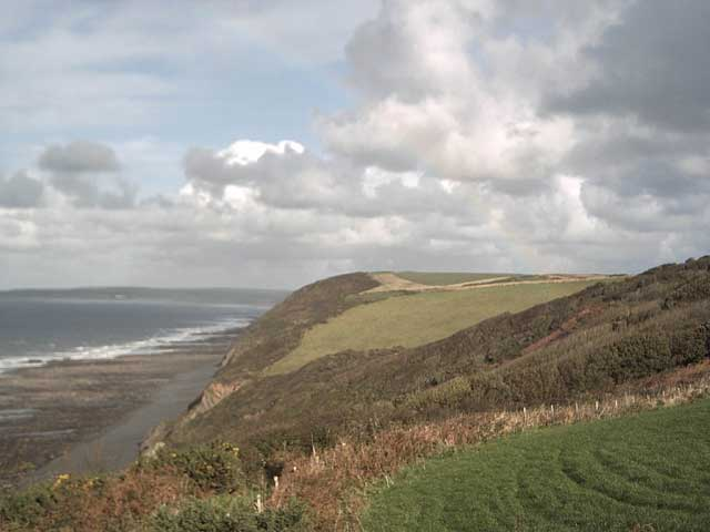 Babbacombe Cliff. Taken from Higher Rowden on the South West Coastpath . Babbacombe Cliff is the thorn covered slope in the foreground, with Westacott cliff in the midground. You can also see Saunton Sands Hotel SS4437 in the far left background.